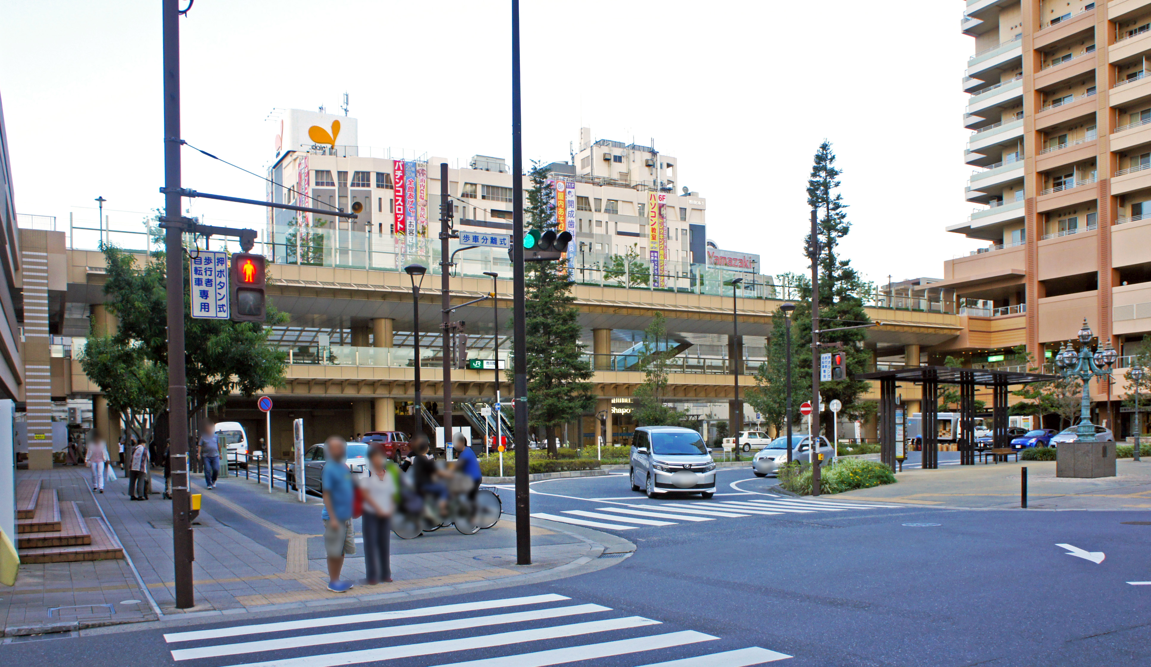 South Exit of JR Sobu-Main-Line Ichikawa Station